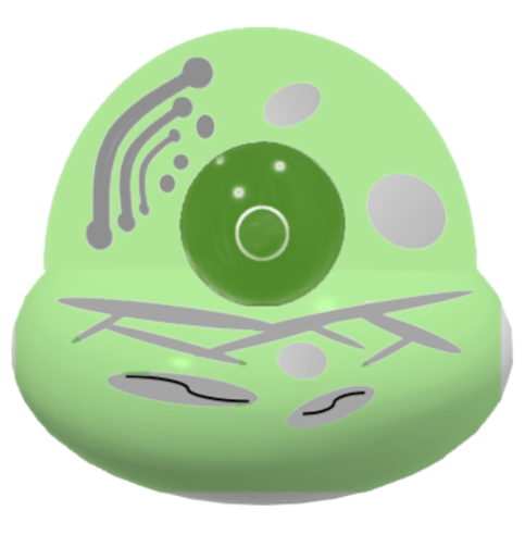 the nucleus and cytoplasm (in green) of human cells contain the USP27X protein, according to